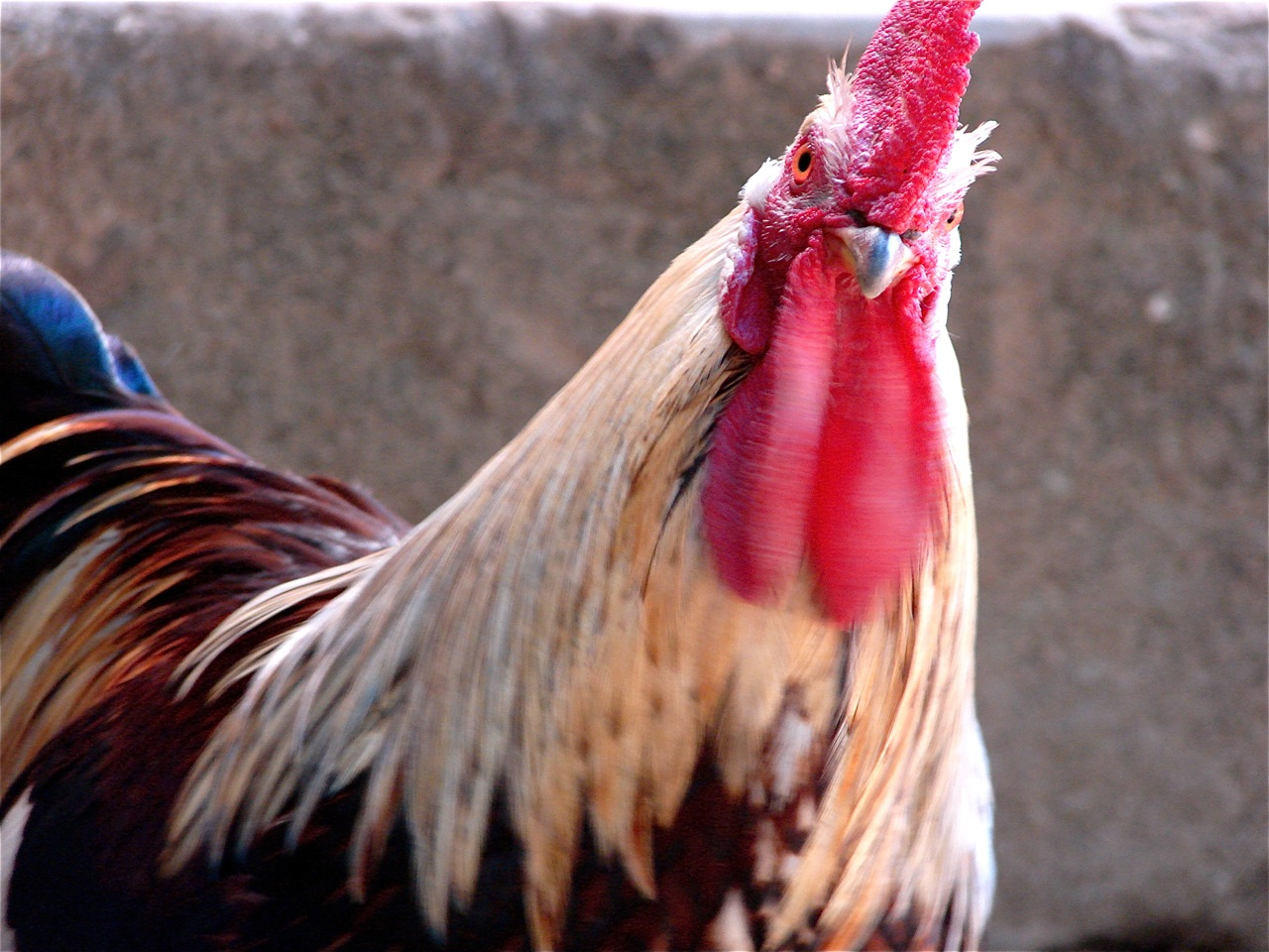 Angry rooster